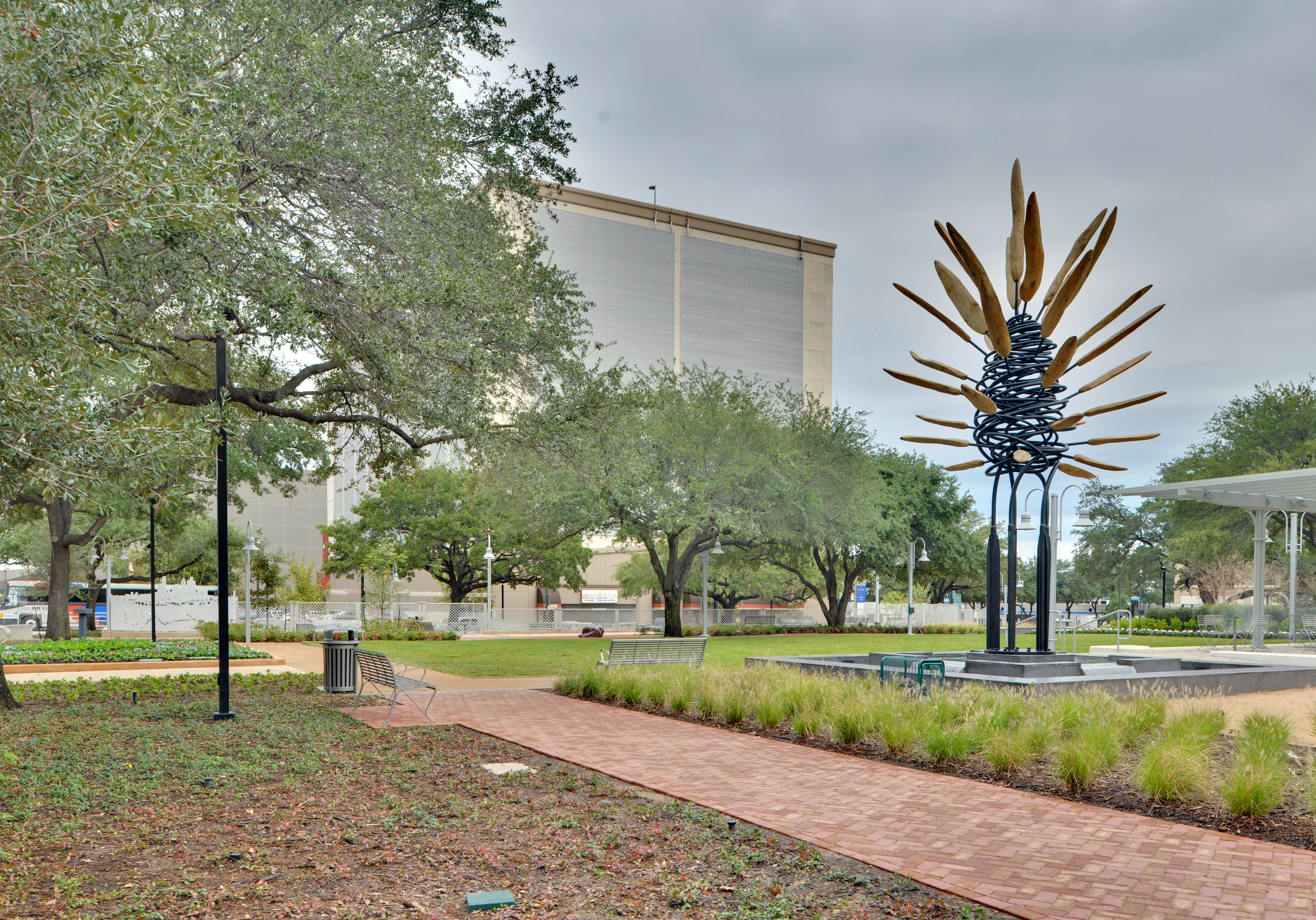 Market Square, Downtown Houston (Texas, USA), is listed in the National Register of Historic Places, United States Department of the Interior, as part of the Main Street/Market Square Historic District.